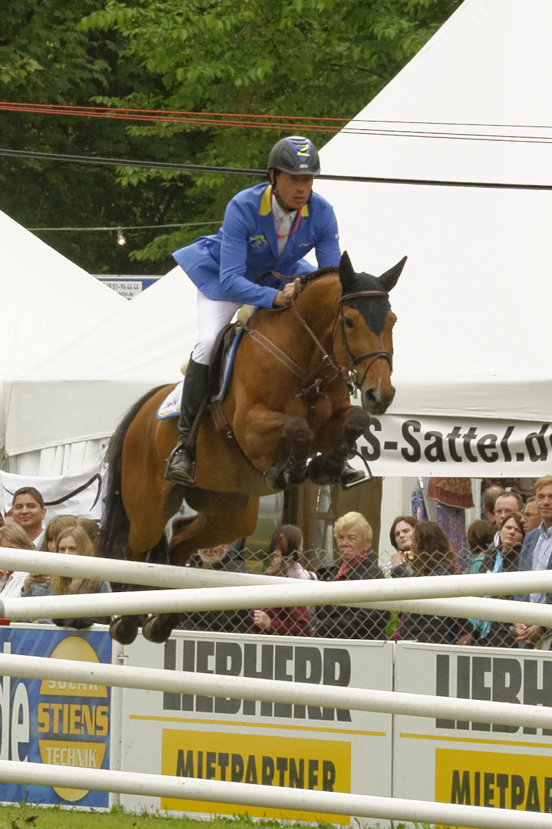 Internationales Pfingstturnier Wiesbaden 2013 The making of this document was supported by the Community-Budget of Wikimedia Germany.